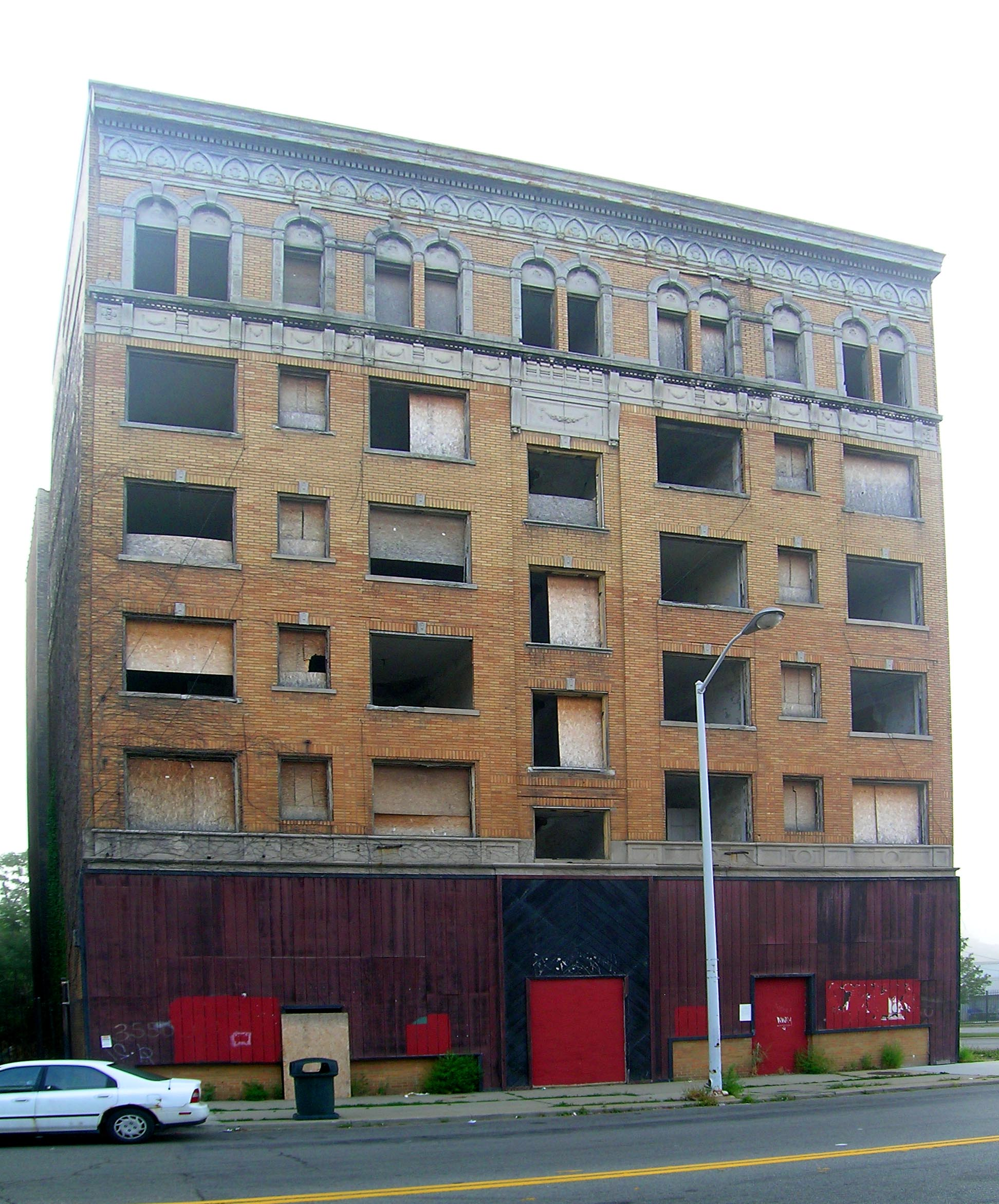 Cass Plaza Apartments on Cass in Detroit Michigan